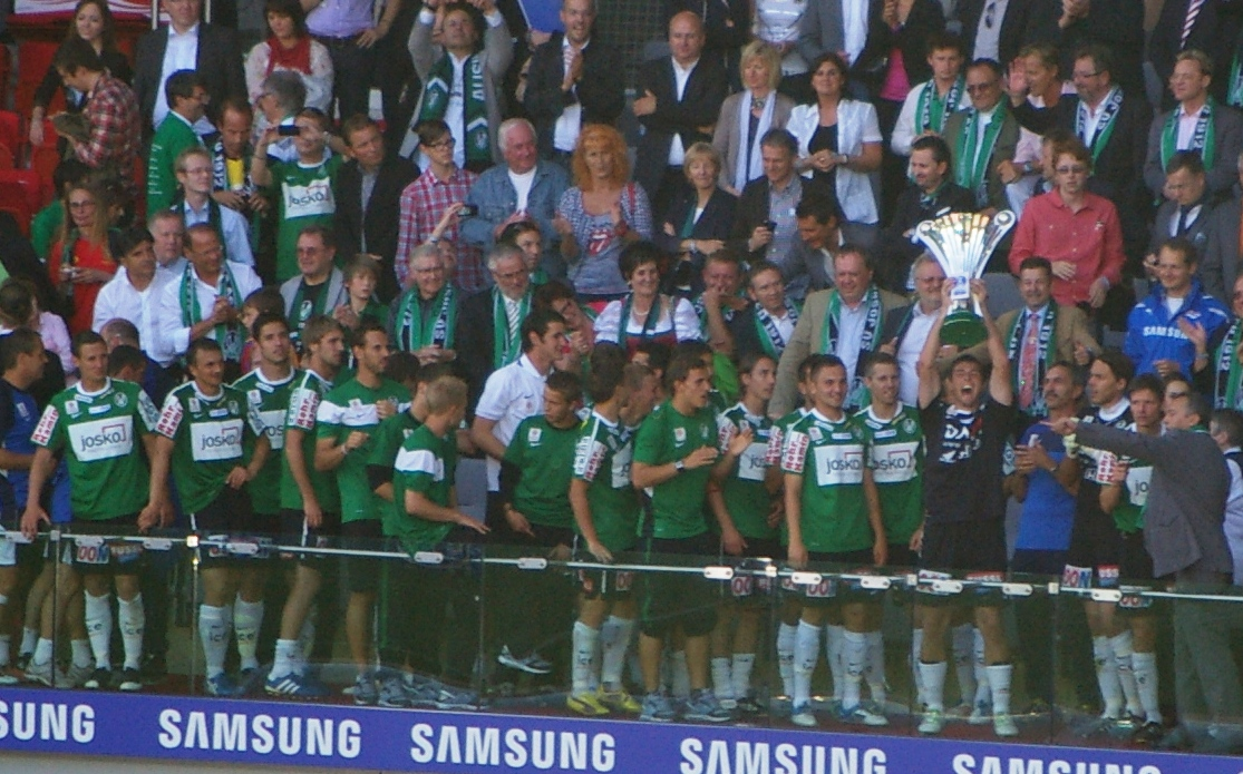 Thomas Gebauer is holding the AUSTRIAN cUP